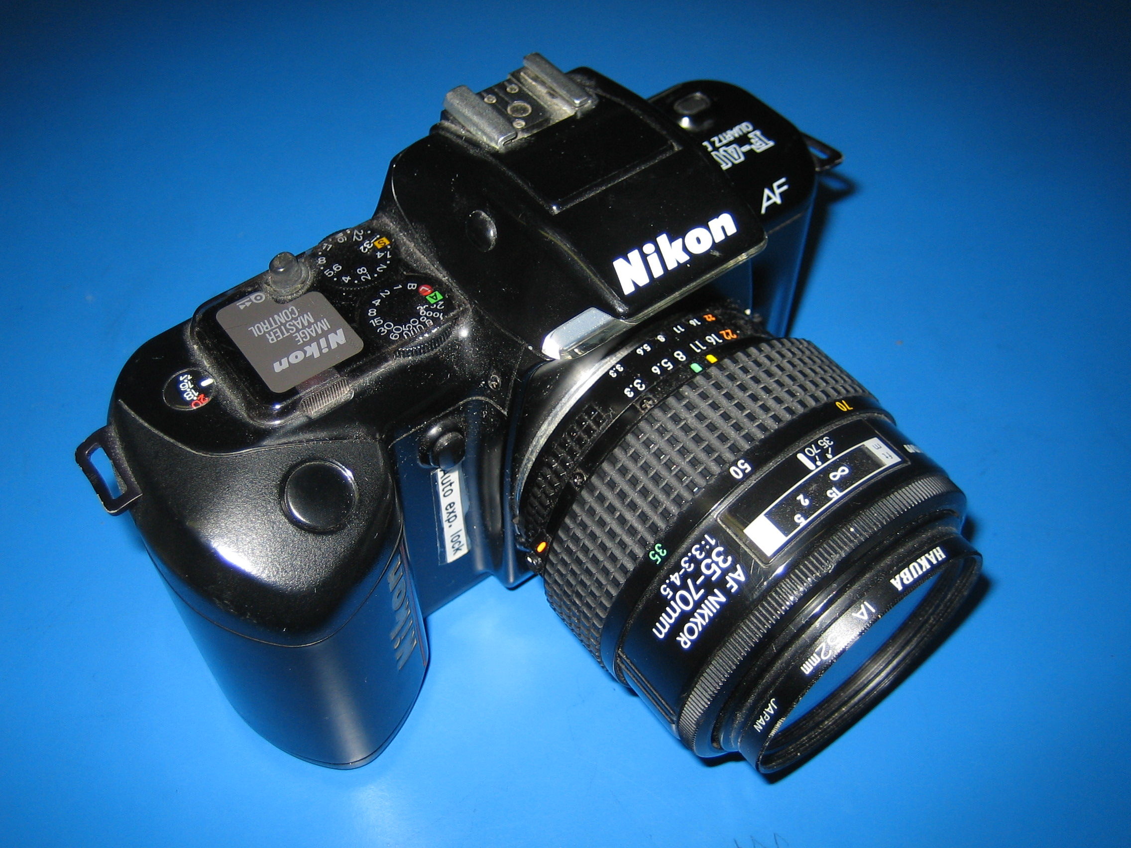 Nikon F-401 with standard lens.